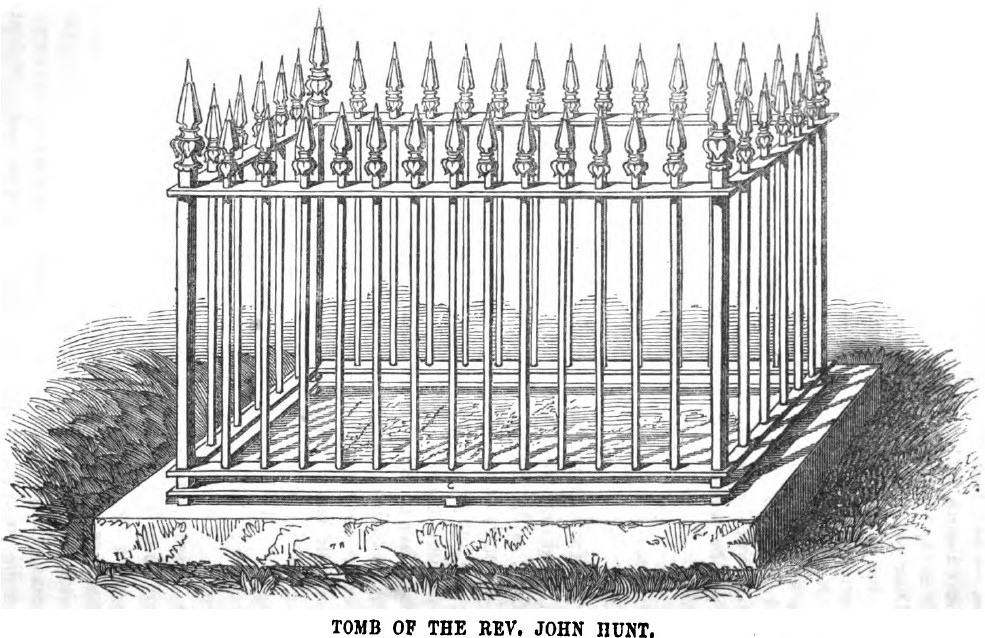 Tomb of Rev. John Hunt, Vewa, Feejee (VII, p.66, June 1850)